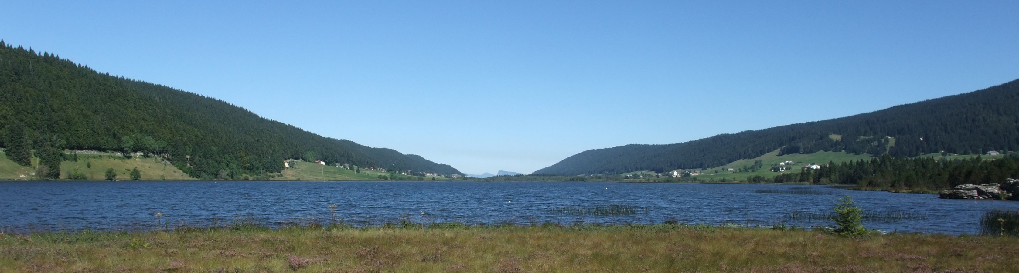 Lake of Les Rousses